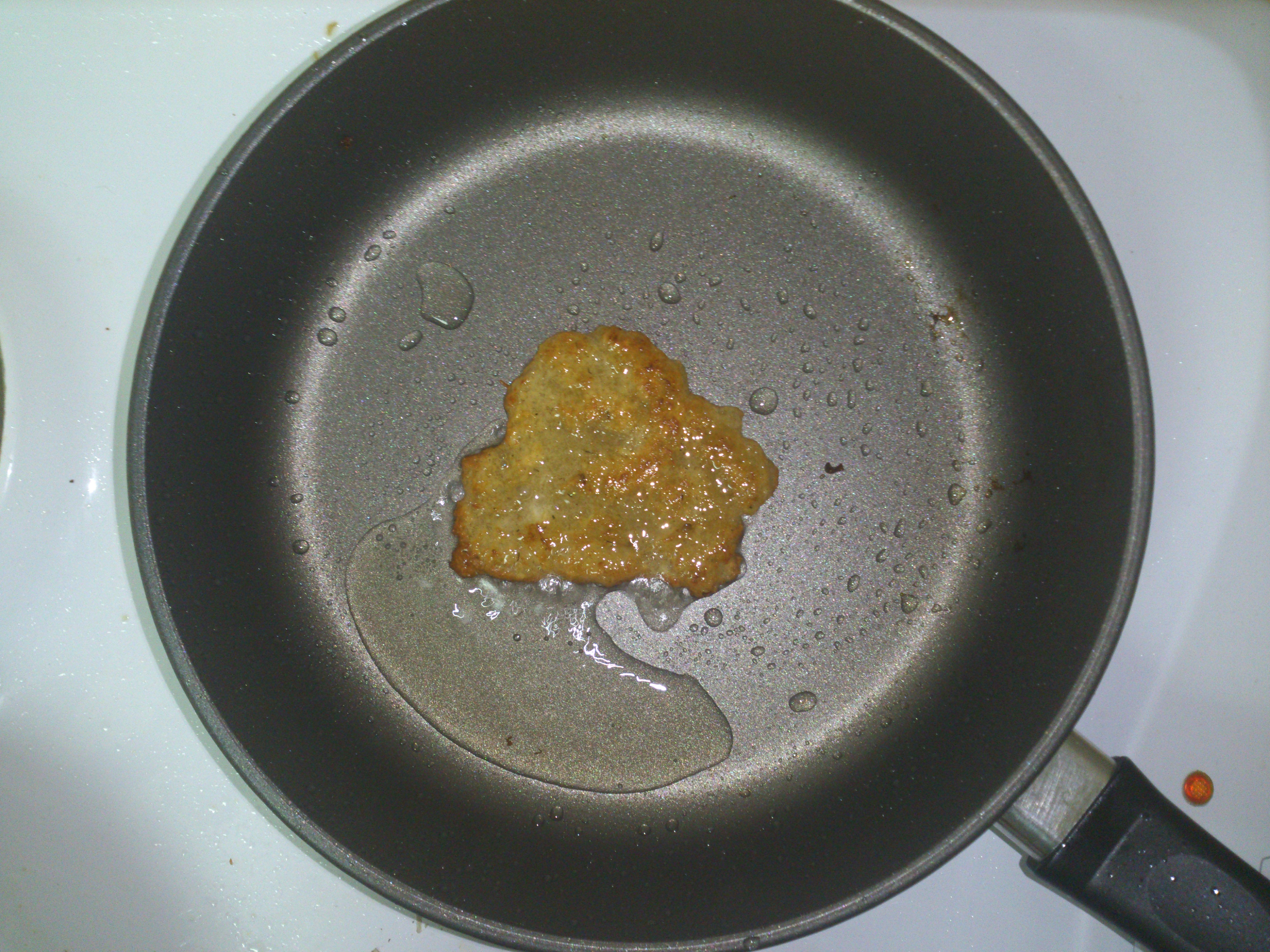 Dranik which looks like Belarus.